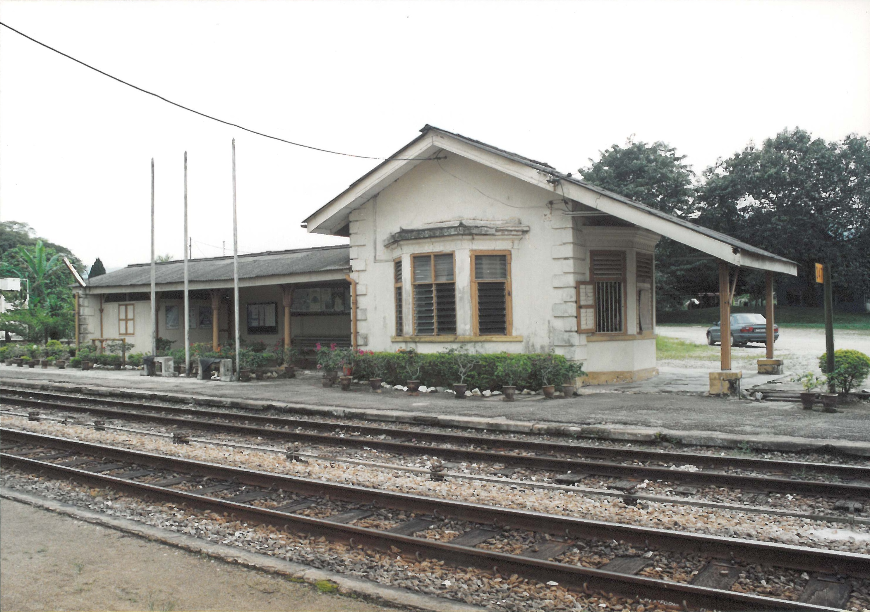 Old Serendah railway station which is located behind the police station in Serendah town. icture taken in 2002.